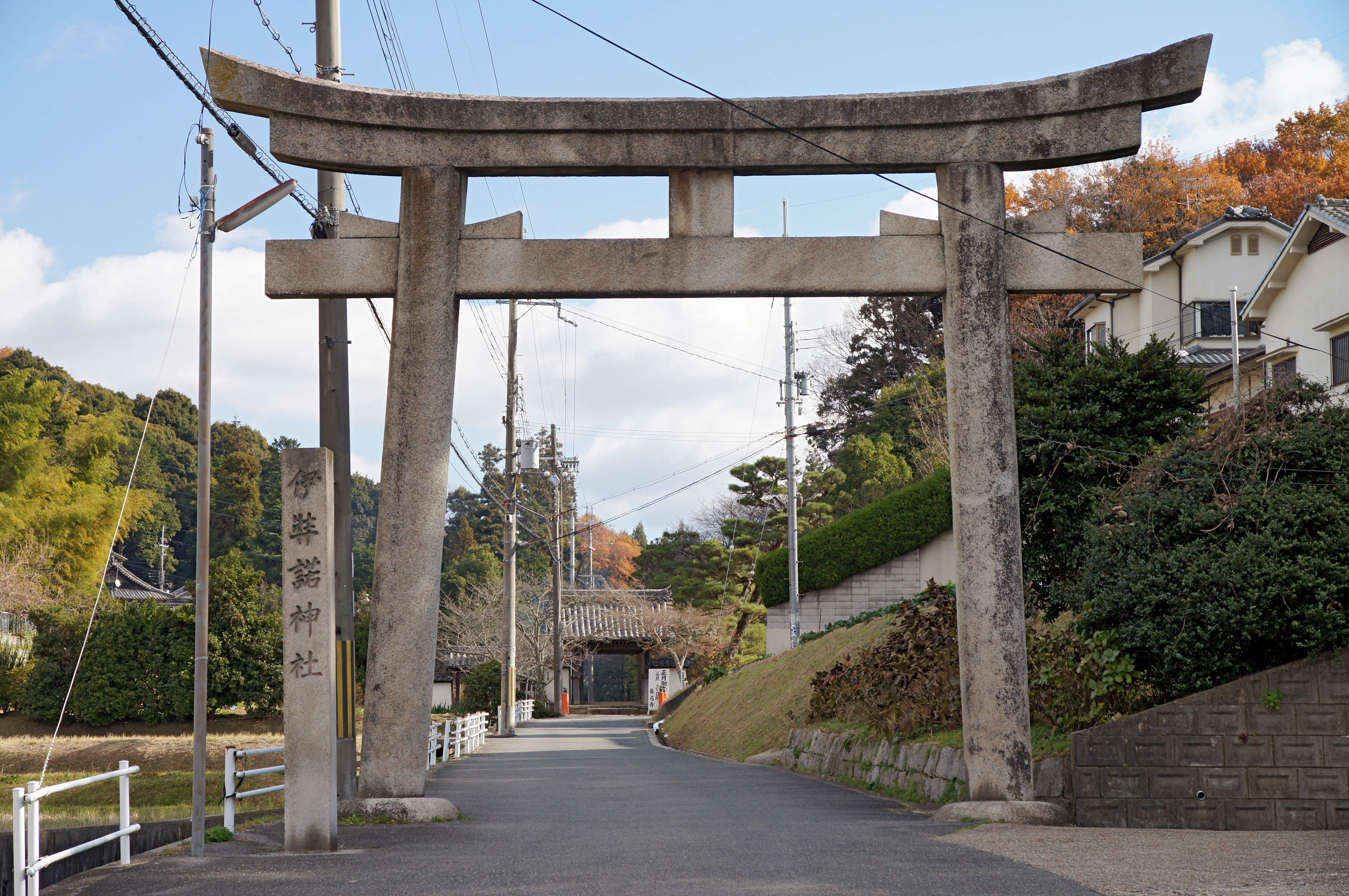 Izanagi-jinja in Chōkyū-ji, Ikoma, Nara prefecture, Japan